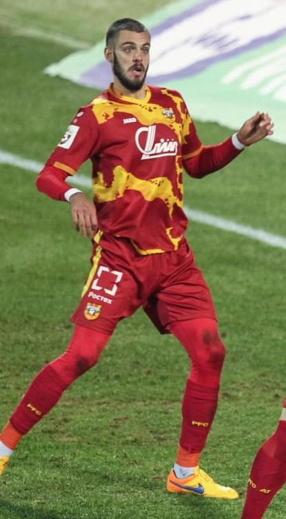 19.03.17. Россия, Санкт-Петербург, «Петровский», Большая арена. РОСГОССТРАХ-Чемпионат России 2016/17, 20-й тур, «Зенит» — «Арсенал».